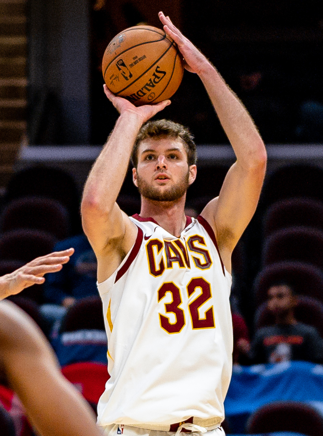 Dean Wade of the Cleveland Cavaliers takes a jump shot during a 2019 preseason exhibition game against San Lorenzo de Almagro at Rocket Mortgage FieldHouse in Cleveland.